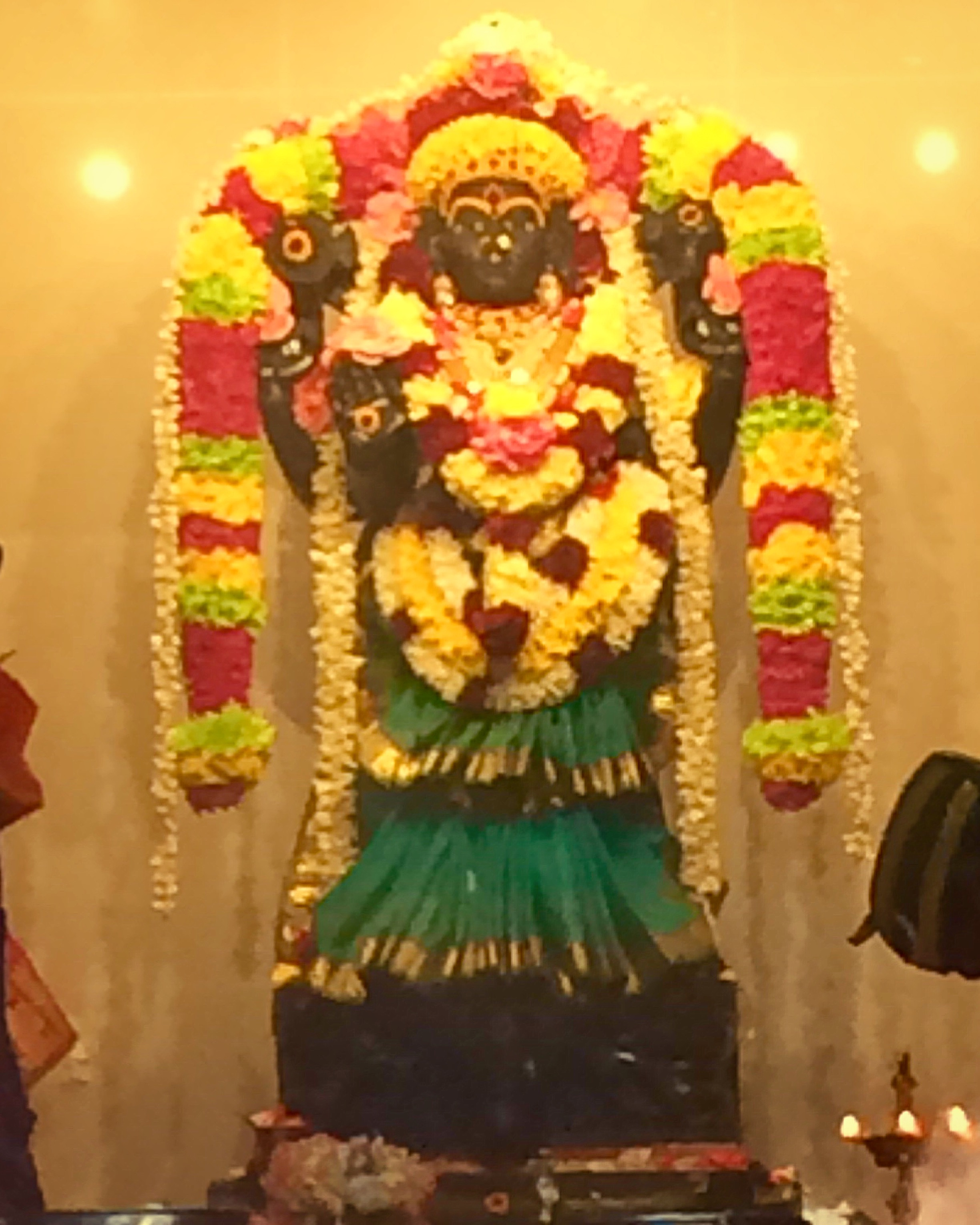 Sydney Durga Statue